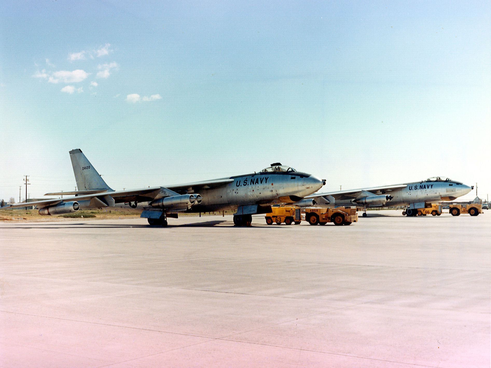 Two U.S. Navy Boeing EB-47E Stratojets at at the Naval Missile Center, Point Mugu, California (USA). The U.S. Air Force B-47Es 52-410 and 52-412 were converted to EB-47Es in the mid-1960s for service with U.S. Navy's Fleet Electronic Warfare Support Group (FEWSG). They were assigned the BuNos "24100" and "24102", which had already ben assigned to Grumman TBF-1 Avengers in the 1940s. Considered to be on indefinite loan from USAF, these aircraft were unlike the USAF EB-47Es, with some of their ECM gear fitted into pods carried on the external fuel tank pylons. They were used for tests of naval ECM systems and as "electronic aggressors" in naval and joint exercises. These two aircraft were the last B-47s in operational service, and 52-410 performed the very last operational flight of a B-47 on 20 December 1977, when it was flown to Pease Air Force Base, New Hampshire (USA). "24120" is today on display at the Dyess Linear Air Park, Dyess AFB, Texas.